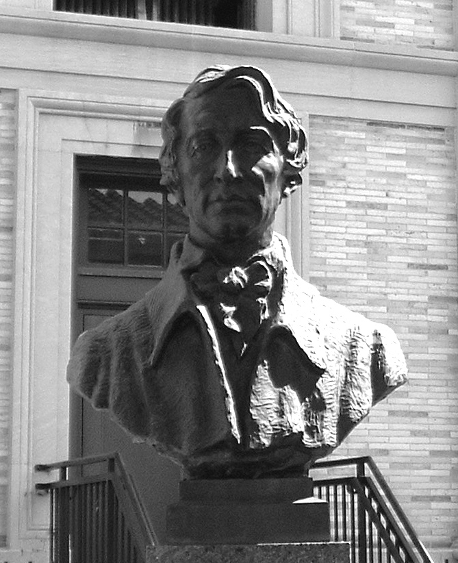 A photo of a bust of Henry David Thoreau from the Hall of Fame for Great Americans at the Bronx Community College